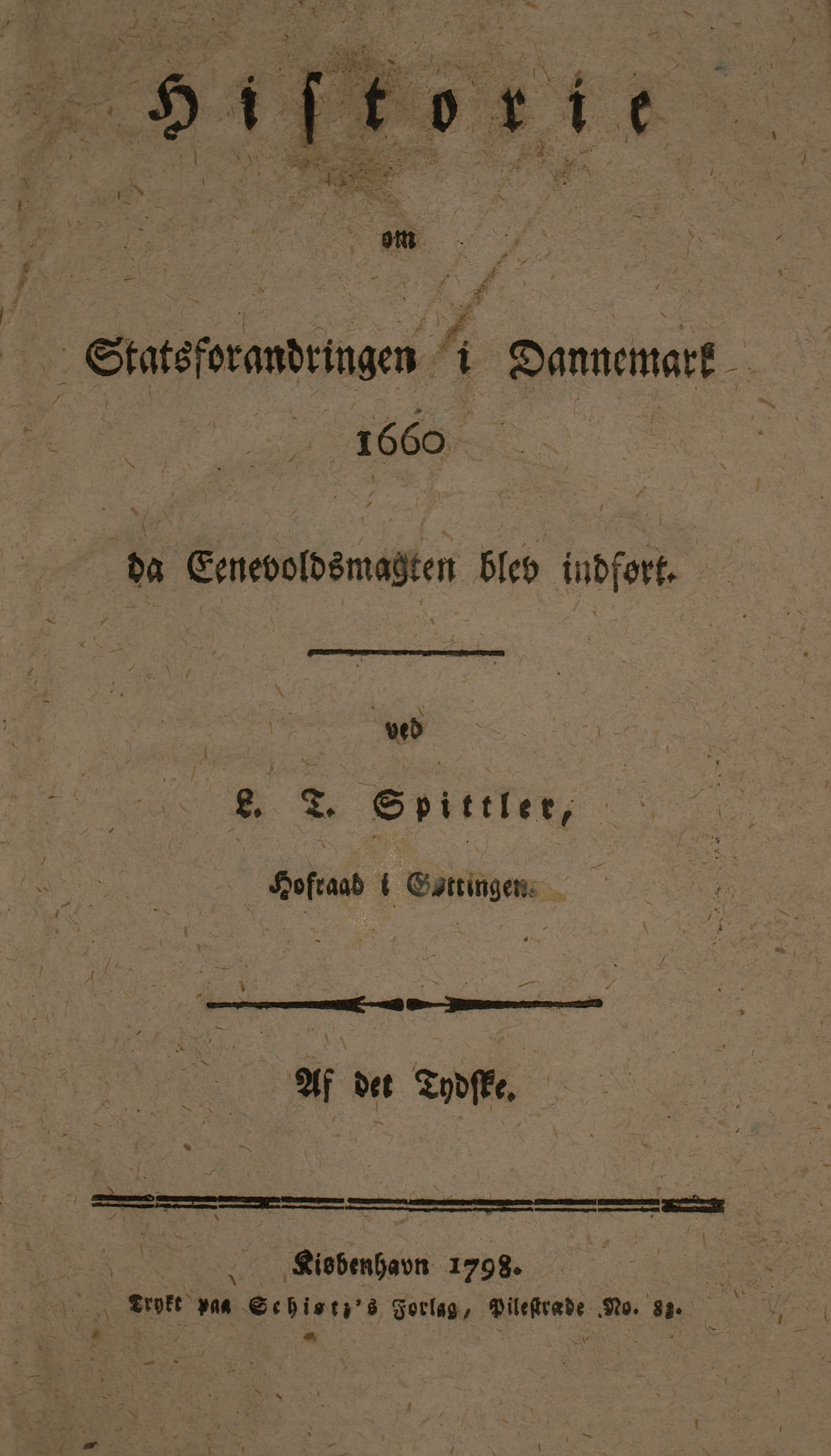 Titlepage of the Danish edition of Ludwig Timotheus Spittlers Historie om Statsforandringen i Dannemark 1660 (Geschichte der dänischen Revolution im Jahr 1660 (1796)) from 1798.